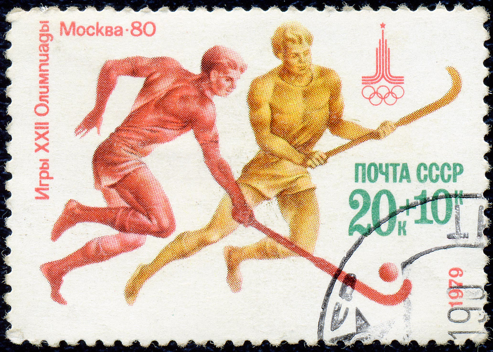 USSR postage stamp. 1979. XXII Summer Olympics. Field hockey